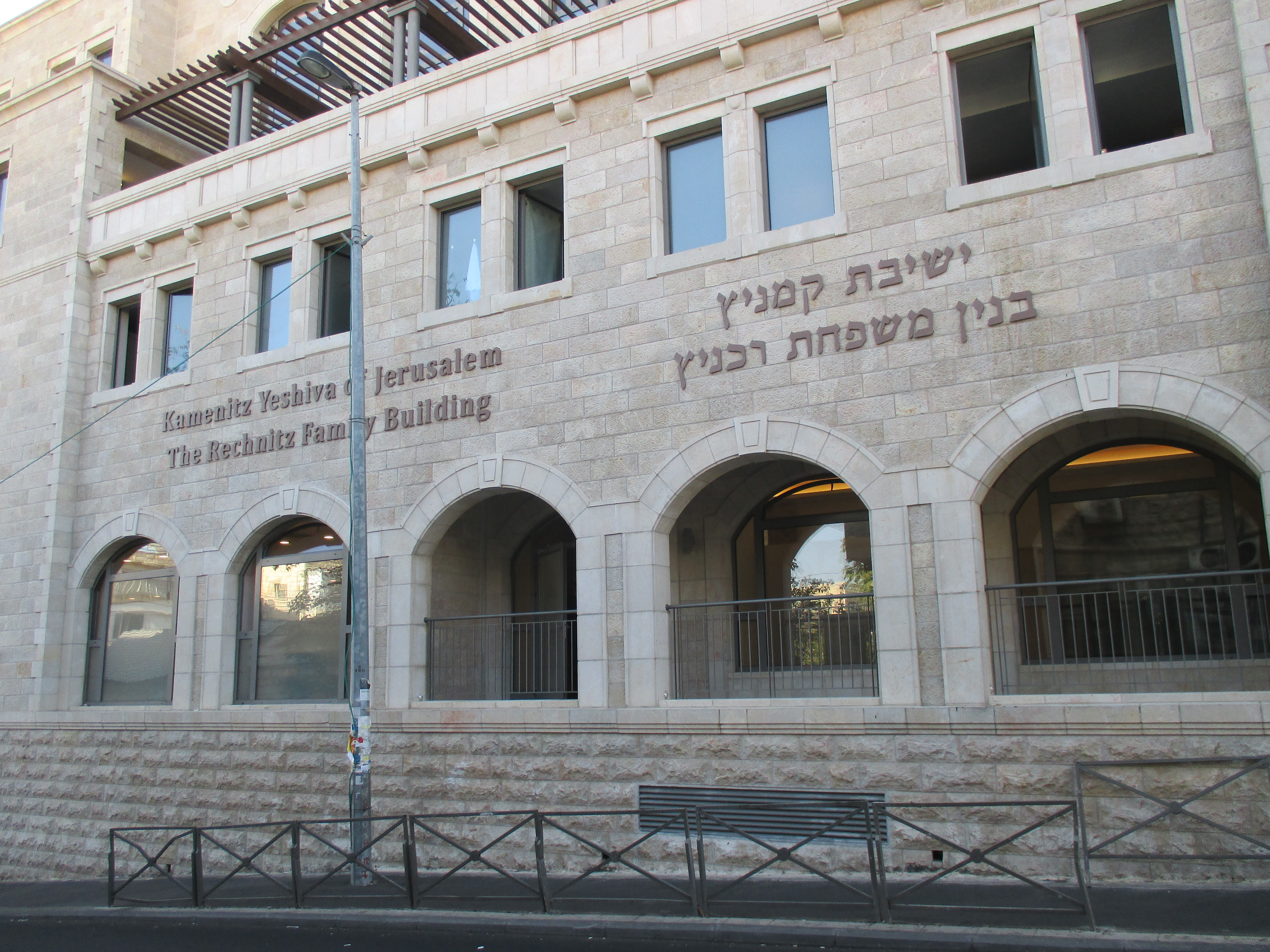 Jerusalem, Yekhezkel st - Yeshiva Kamenitz (Rechnitz Family Building)